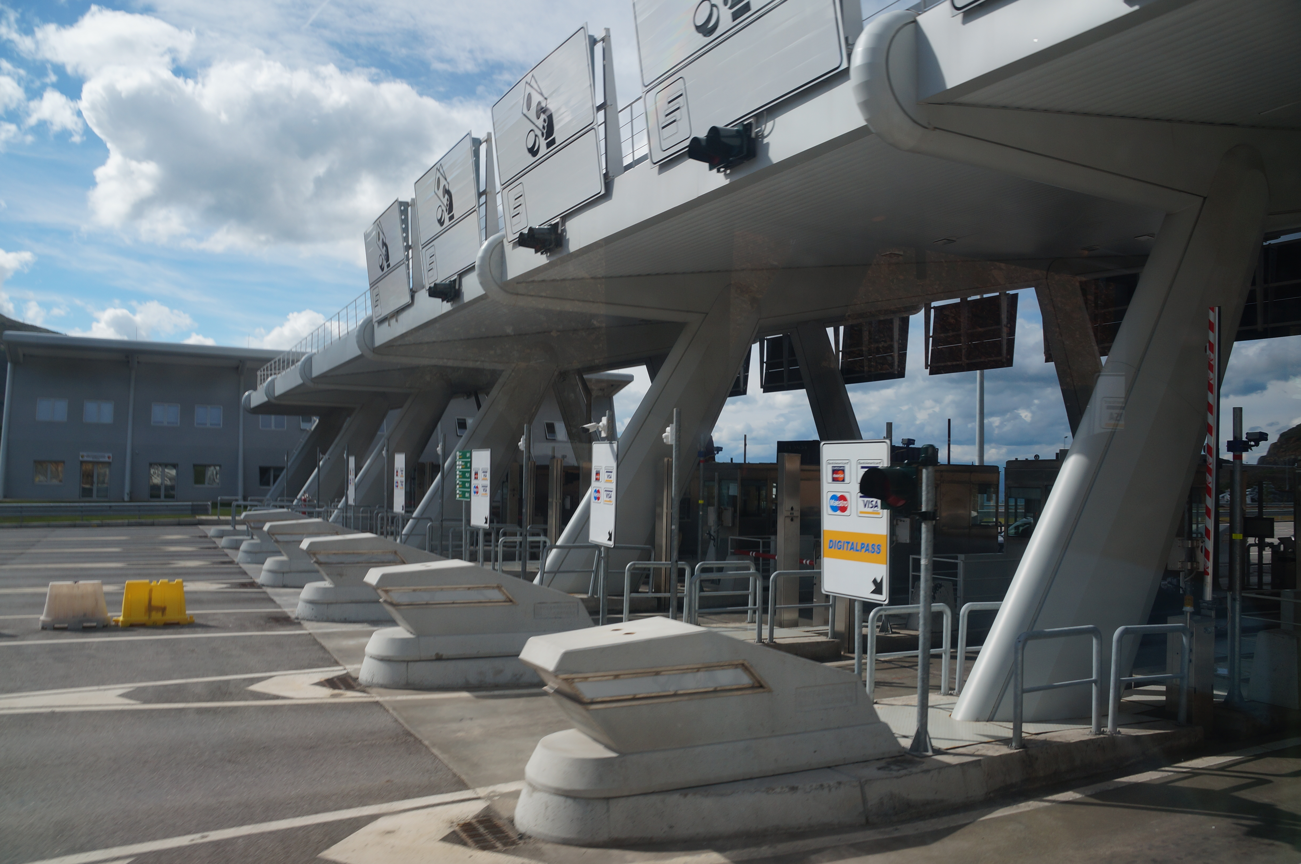 Toll plaza in Kalimash, Kukës, Albania